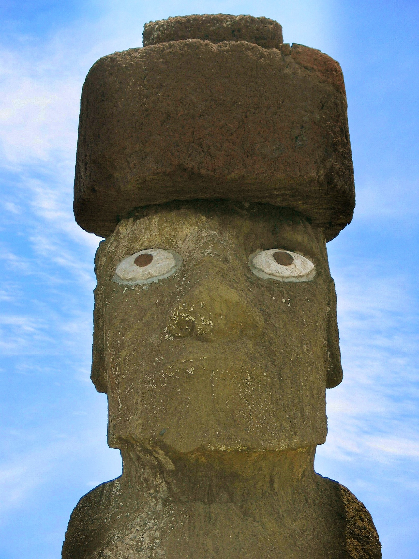 A close up of the moai at Ahu Tahai, restored with coral eyes by the American archaeologist William Mullo. Please acknowledge name of photographer.